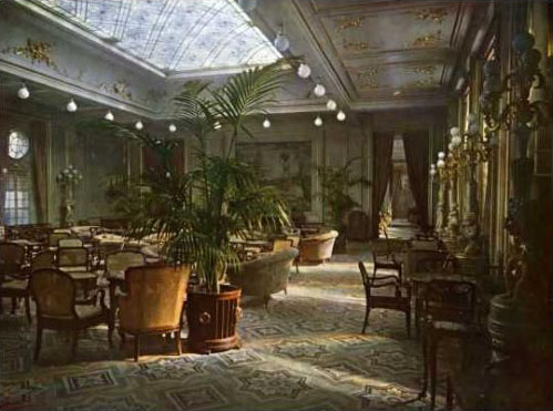 Lounge of the SS Columbus (1924).